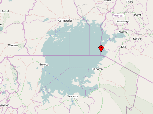 Migingo Island This map may be incomplete, and may contain errors. Don't rely solely on it for navigation.